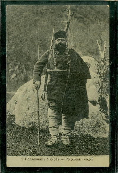 Portrait of Bulgarian revolutionary Anastas Yankov.